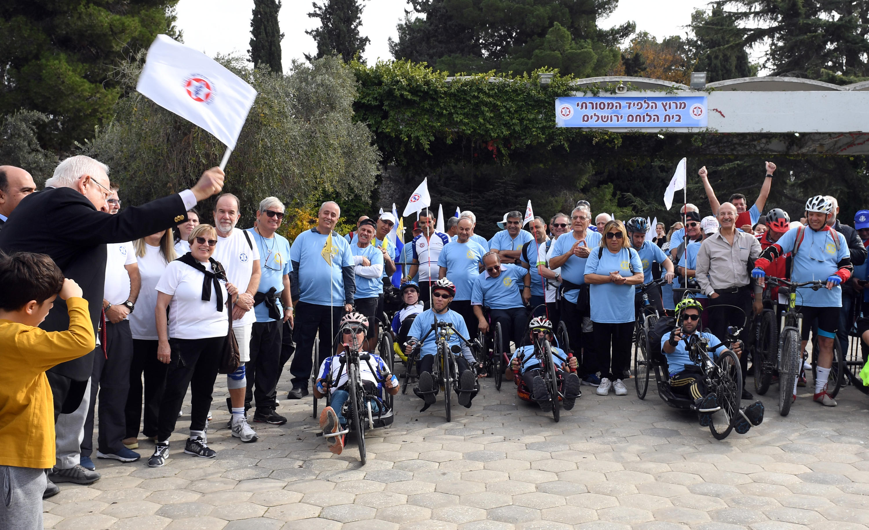 The President of Israel, Reuven Rivlin, launches the traditional torch relay of the IDF disabled veterans organization from Beit HaNassi. Wednesday, December 20, 2017. Photo credit: Haim Zach GPO.